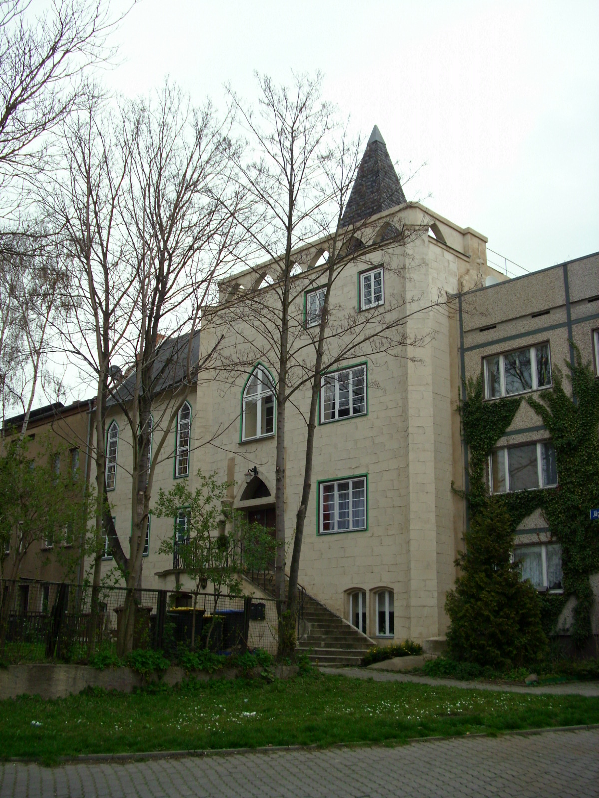 Third location of the Tholuckkonvikt (Jaegerplatz 30/31, 06108 Halle)